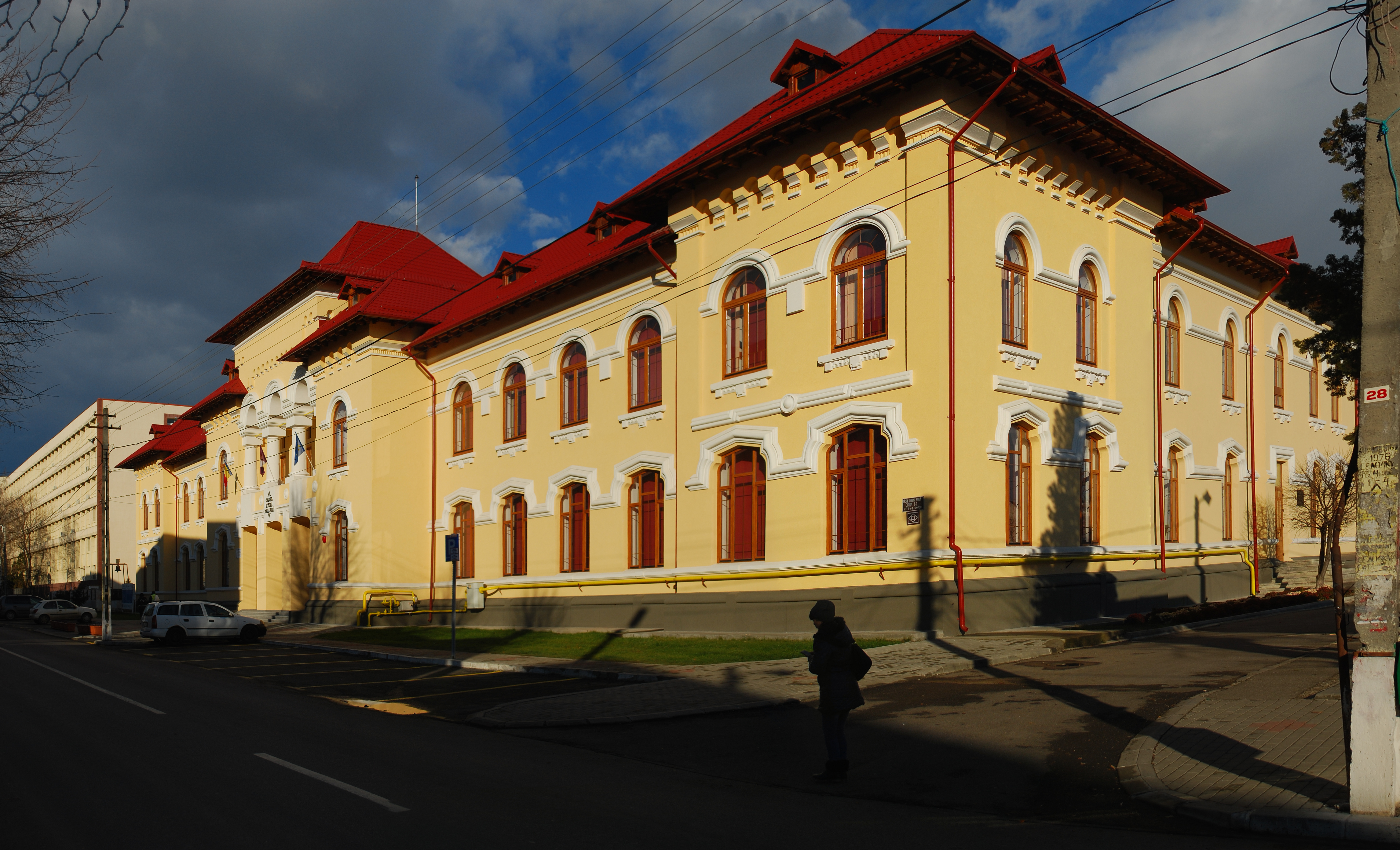 Roman Vodă National College in Roman, Romania, corp B